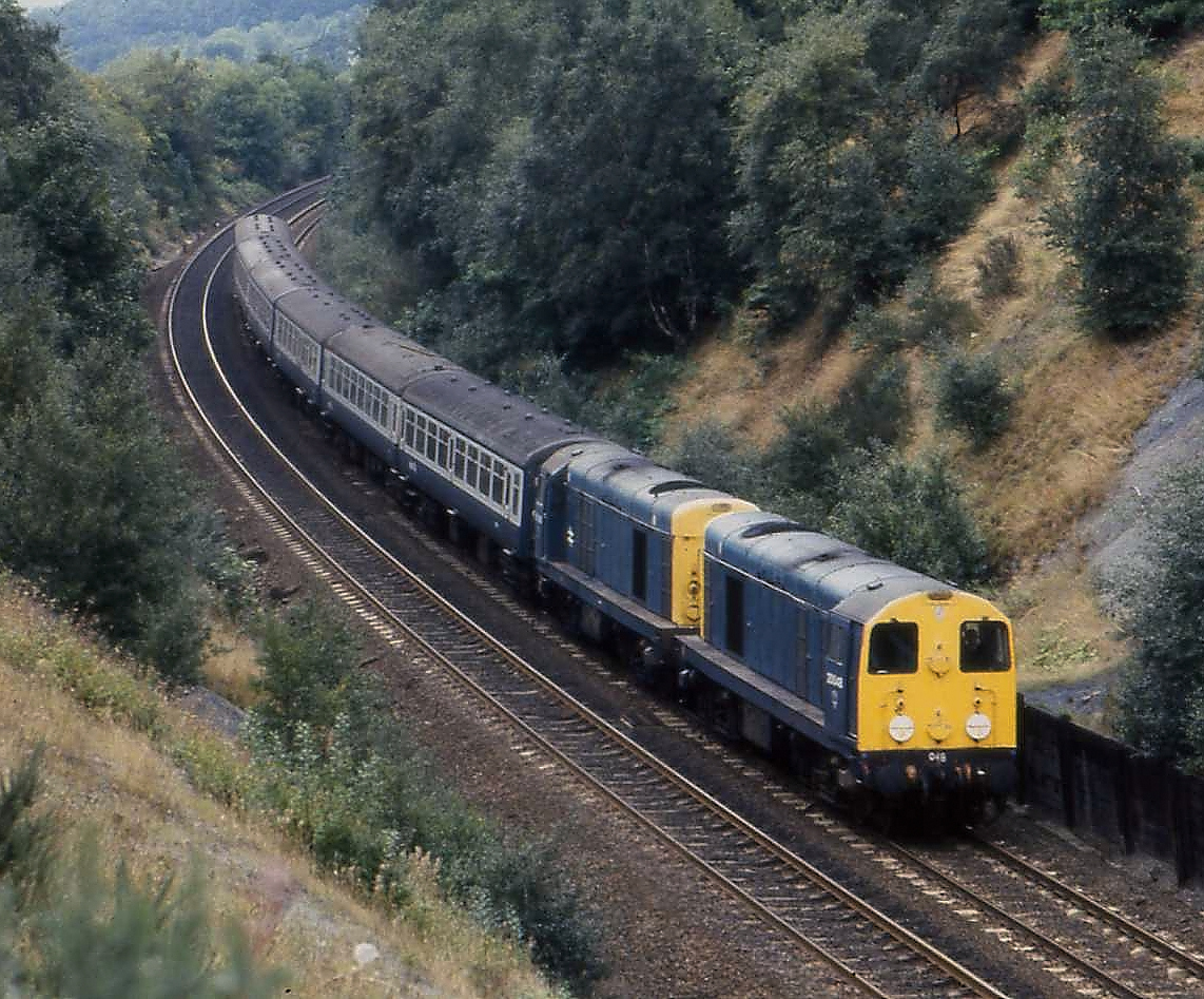 Two unidentified Class 20s pass Sheepbridge working Saturday empty stock from Skegness to Sheffield